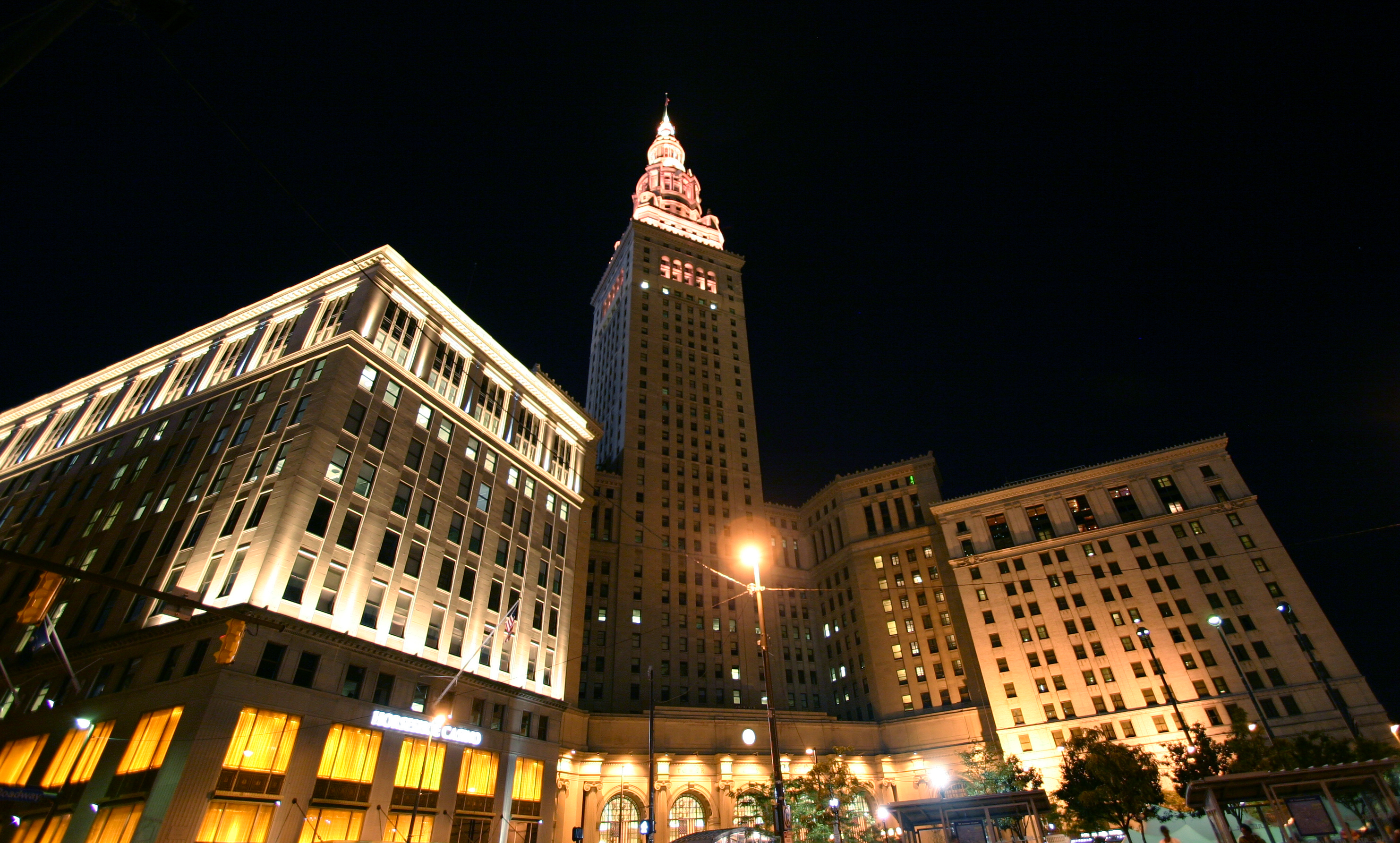 Union Terminal Group